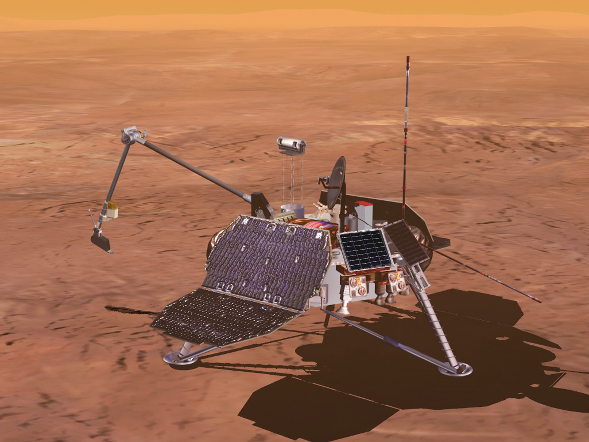 Mars Polar Lander will use an articulated robotic arm to dig trenches to collect soil samples. This terrain near the south pole is believed to consist of layers of soil and ice built up over many years (similar to tree growth rings). The composition of the layers may reveal clues to past climatic conditions.